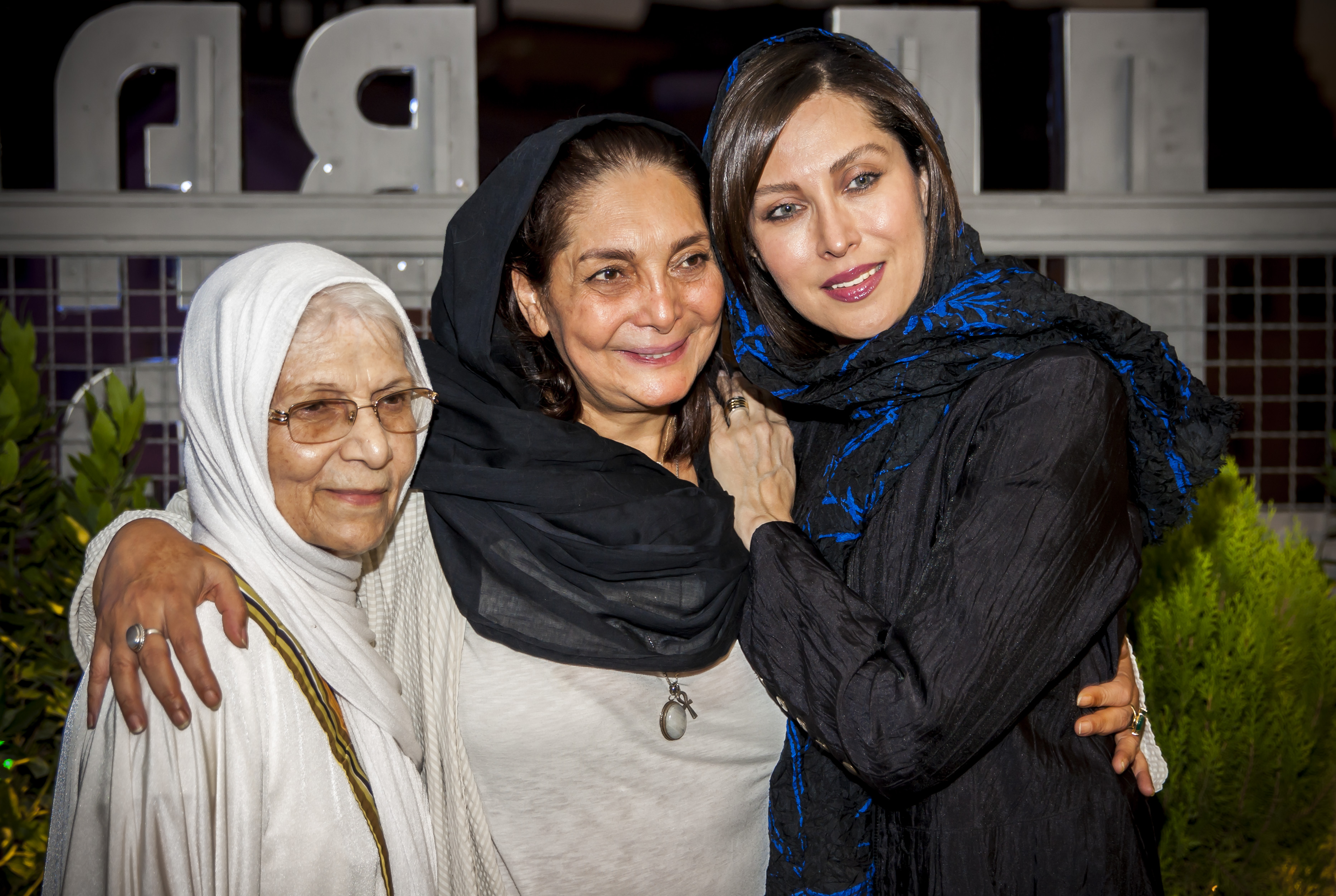 iGhe3, iGhese city - 2019